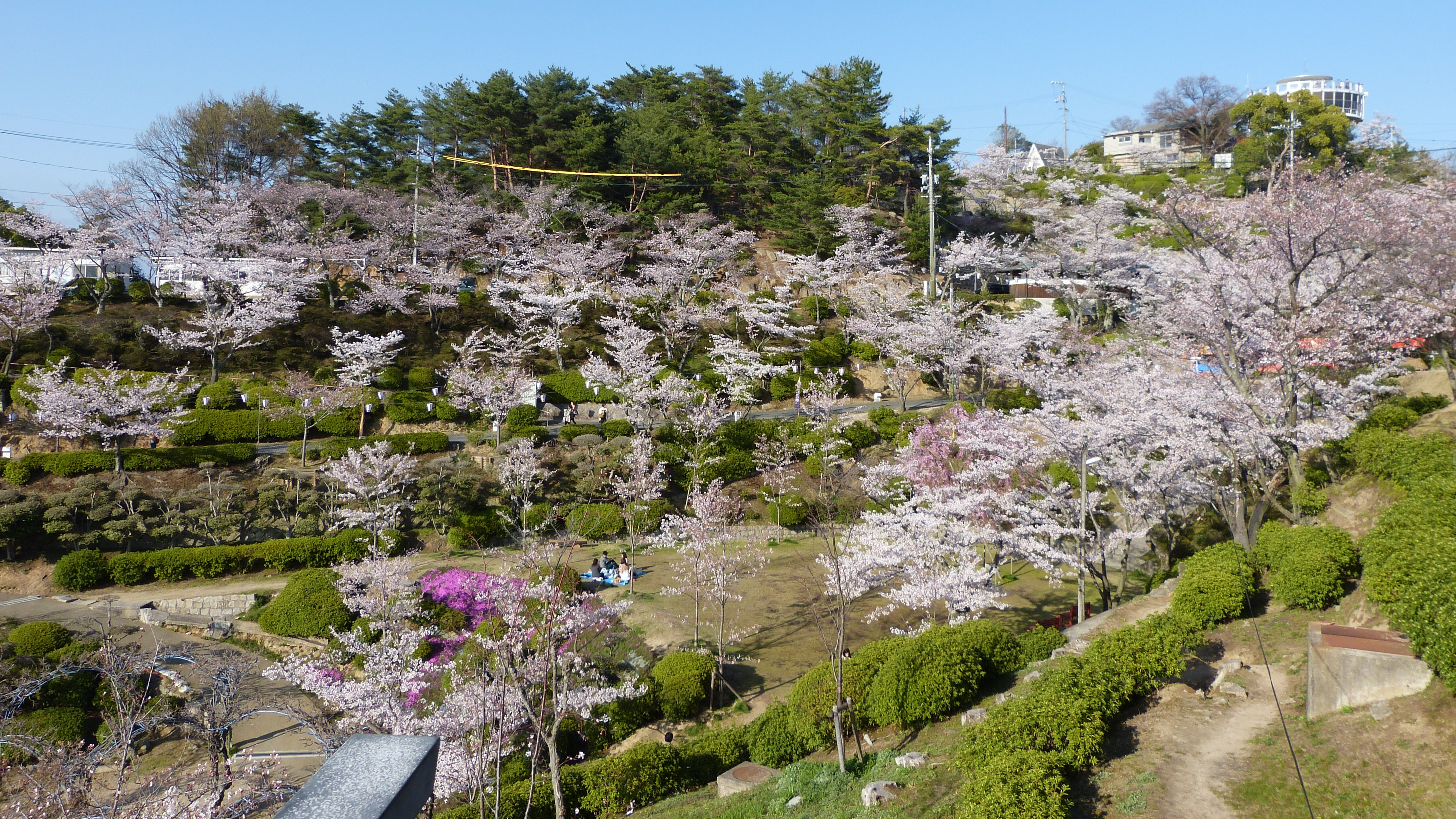 Cherry trees in Senkōji park (Japan's Top 100 famous place of cherry trees) ,Hiroshima prefecture,Japan